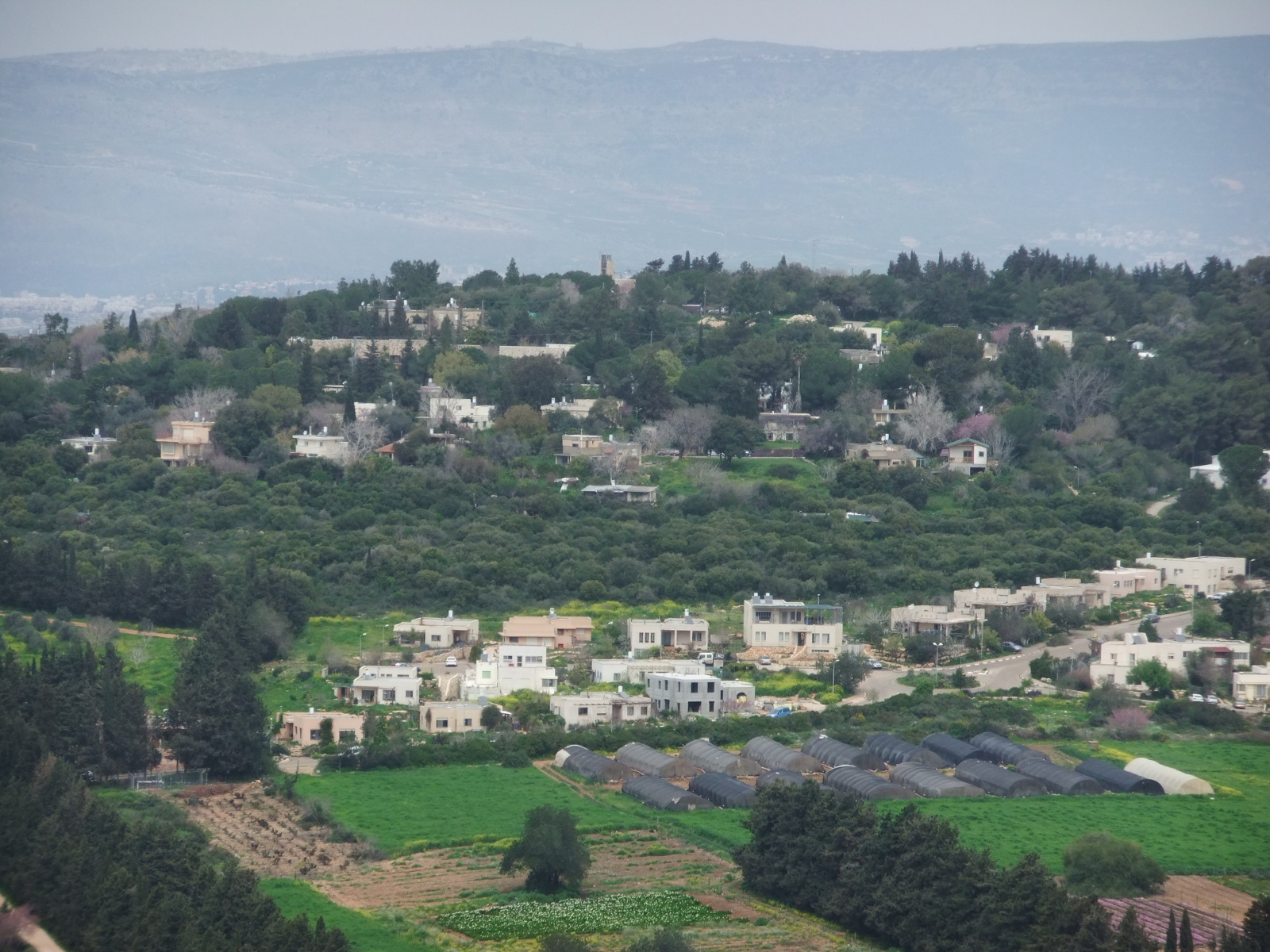 Yodfat from Mount Atsmon